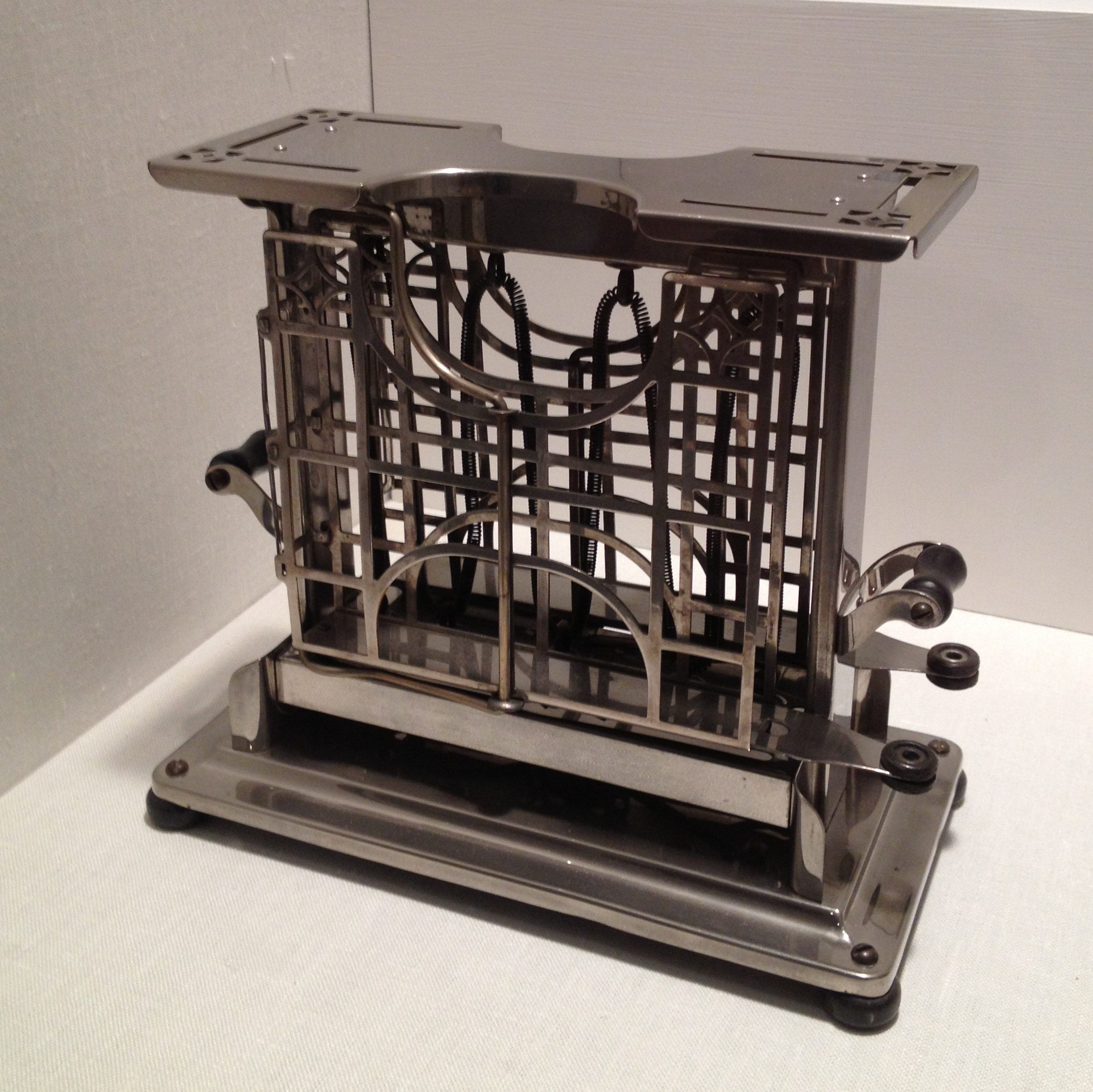 Toaster on display in The Wolfsonian-FIU's permanent galleries, Miami Beach, Florida, USA.